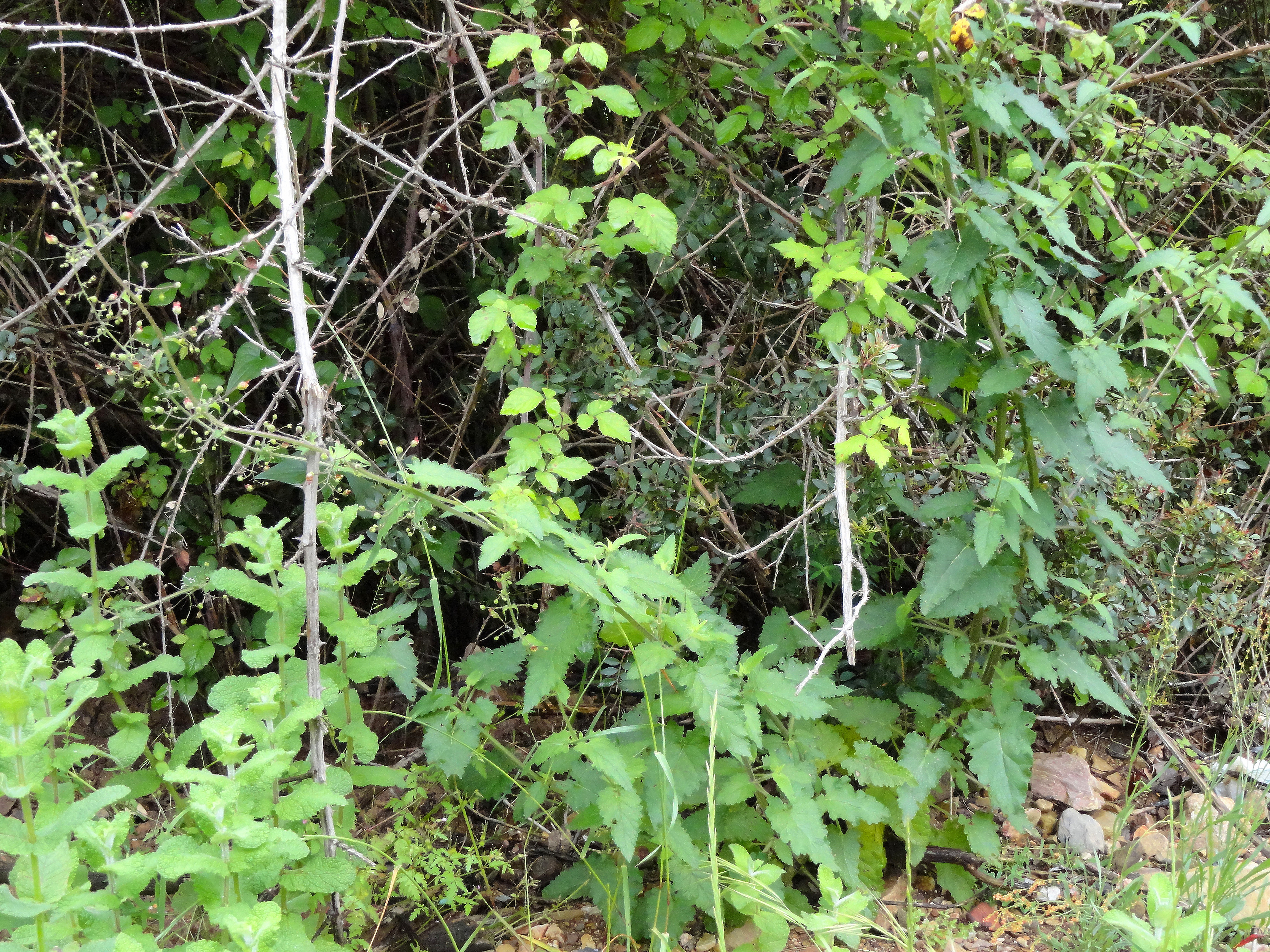 Scrophularia oxyrhyncha habit, "Barquizuelas" Sierra Madrona, Spain